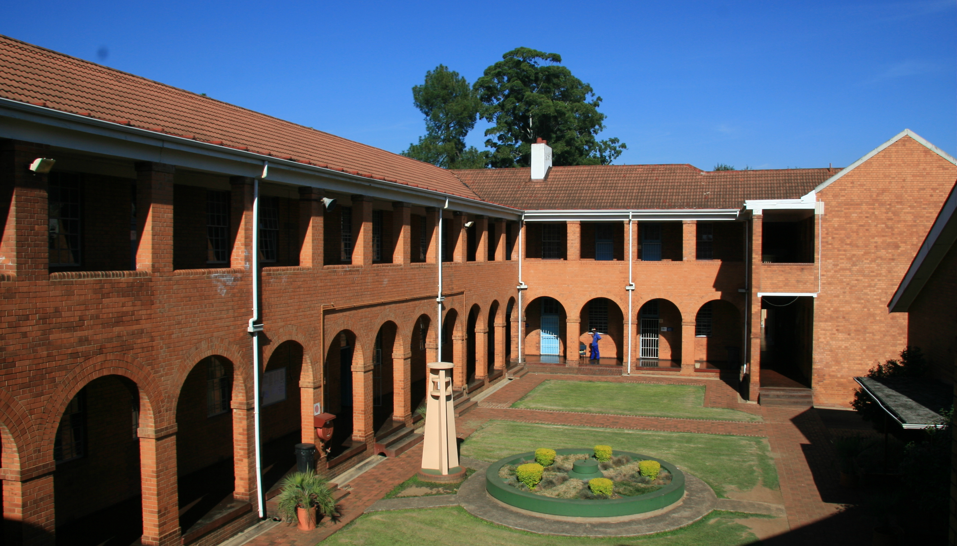 Voortrekker Senior Primary School, Pietermaritzburg, South Africa